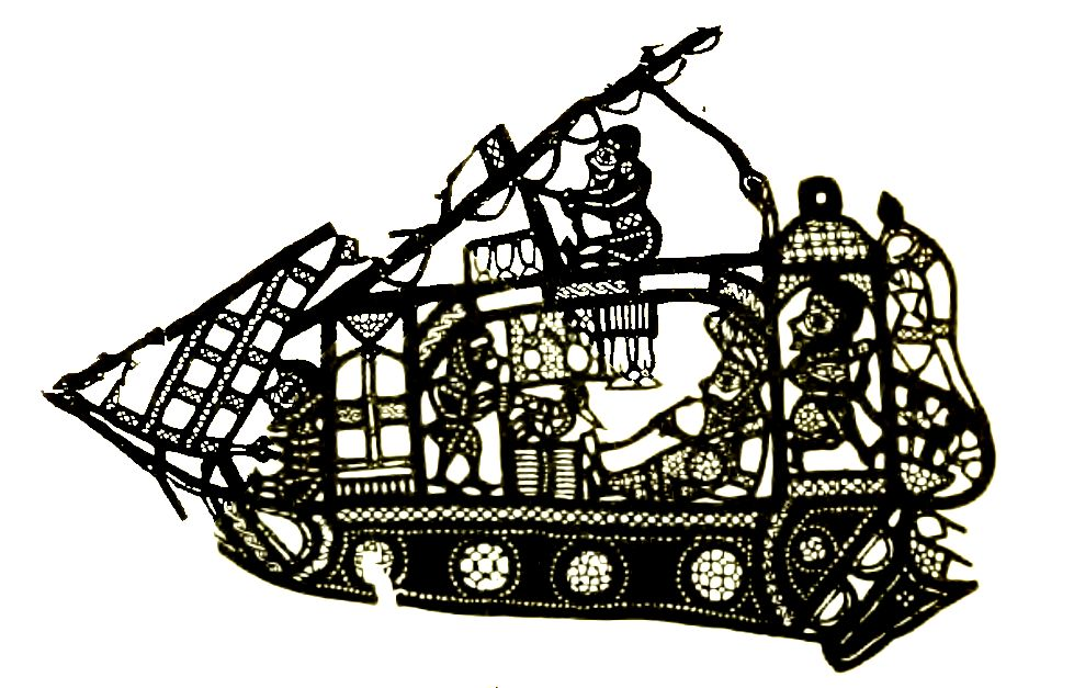 Dahabije, shadow puppet, Egypt, collected by Paul Kahle 1909